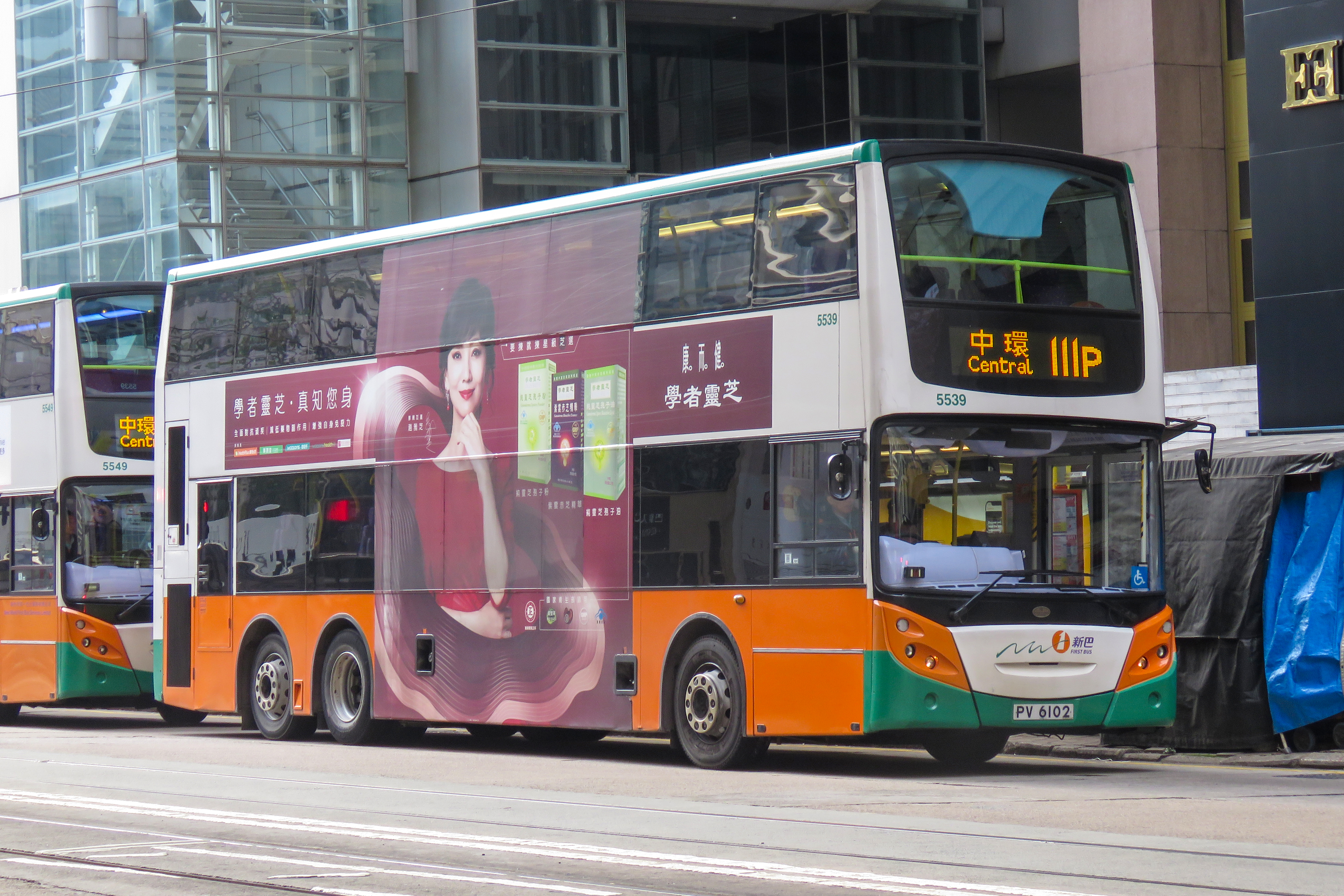 111P from Choi Fook.